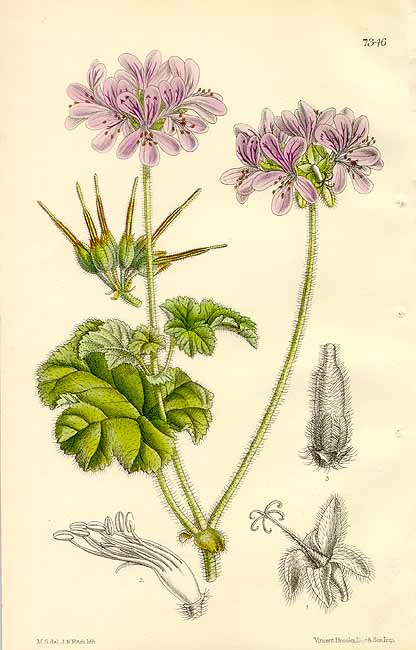 Reproduction of an image that appeared in The Botanical Magazine vol. 120 plate 7346 (1894). The title is Pelargonium_Drummondii. A native of Western Australia